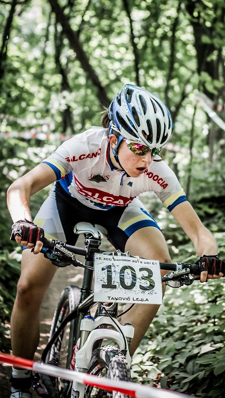 Lejla Tanović racing in Samobor (Croatia)